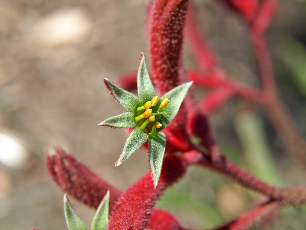 A closeup of the star-shaped kangaroo Paw flower (anigozanthos flavidus) from the Australian Plant Communities section of the Brisbane Botanic Gardens Mt Coot-tha.